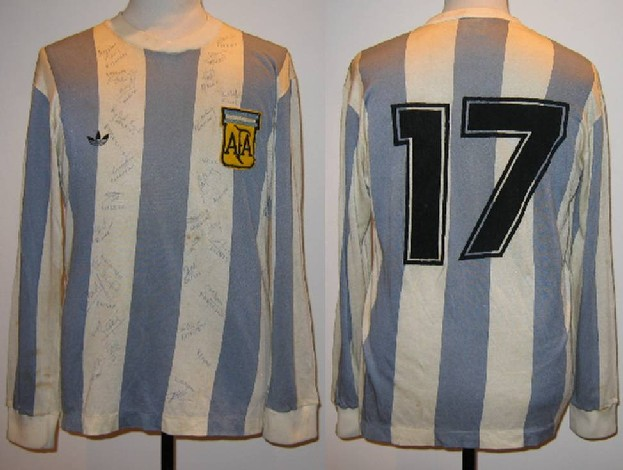 Argentina national team football jersey worn by Rubén Galván during the 1978 World Cup.